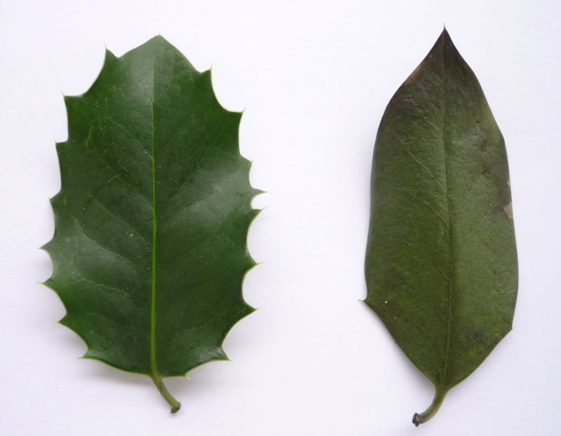 Two leaves of Ilex aquifolium (European Holly) from different heights of growth: left about 1.5 m, right about 4–5 m. The leave on the right has only three spines. Only the spine on the leaf tip is fully developed; there are two small spines on the lower left and right sides of the leaf (refer to image annotations).